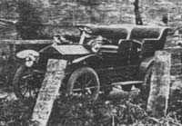 A Lewis-Aster from mid 1900s, at McHenry Street, Adelaide, Australia